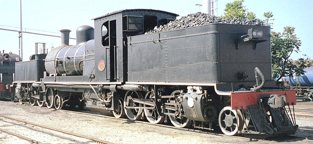 GB 2-6-2+2-6-2 no 2166 at Voorbaai 1997-SEP-04